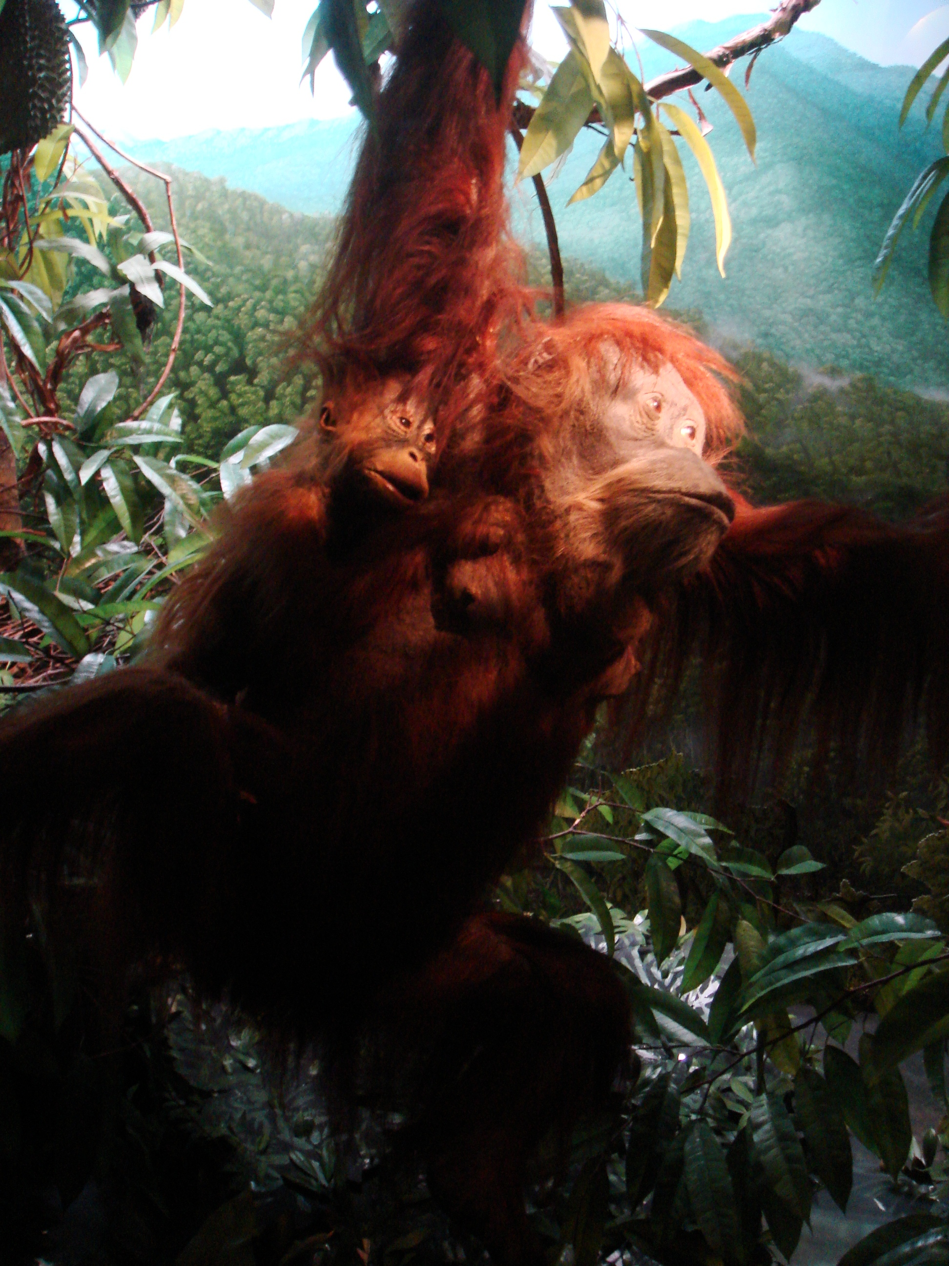 Zoological Museum, Copenhagen. Picture by Stefano Bolognini.